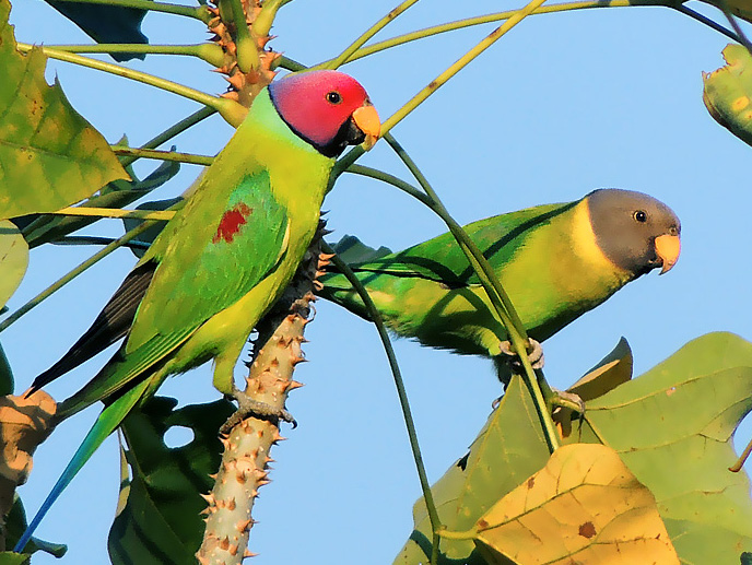 Pair of Plum-headed parakeet (Psittacula cyanocephala), male at the left and female at the right side...